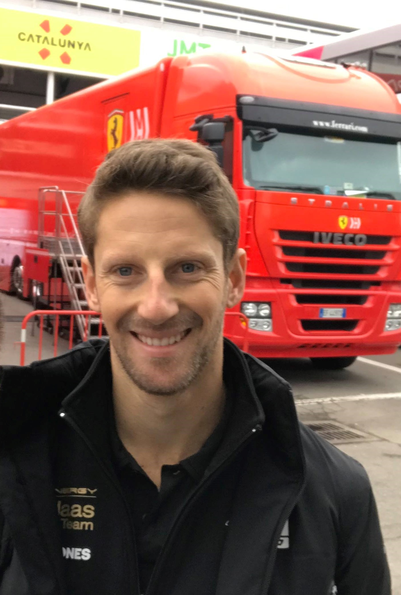 2019 Formula One tests Barcelona, Grosjean.